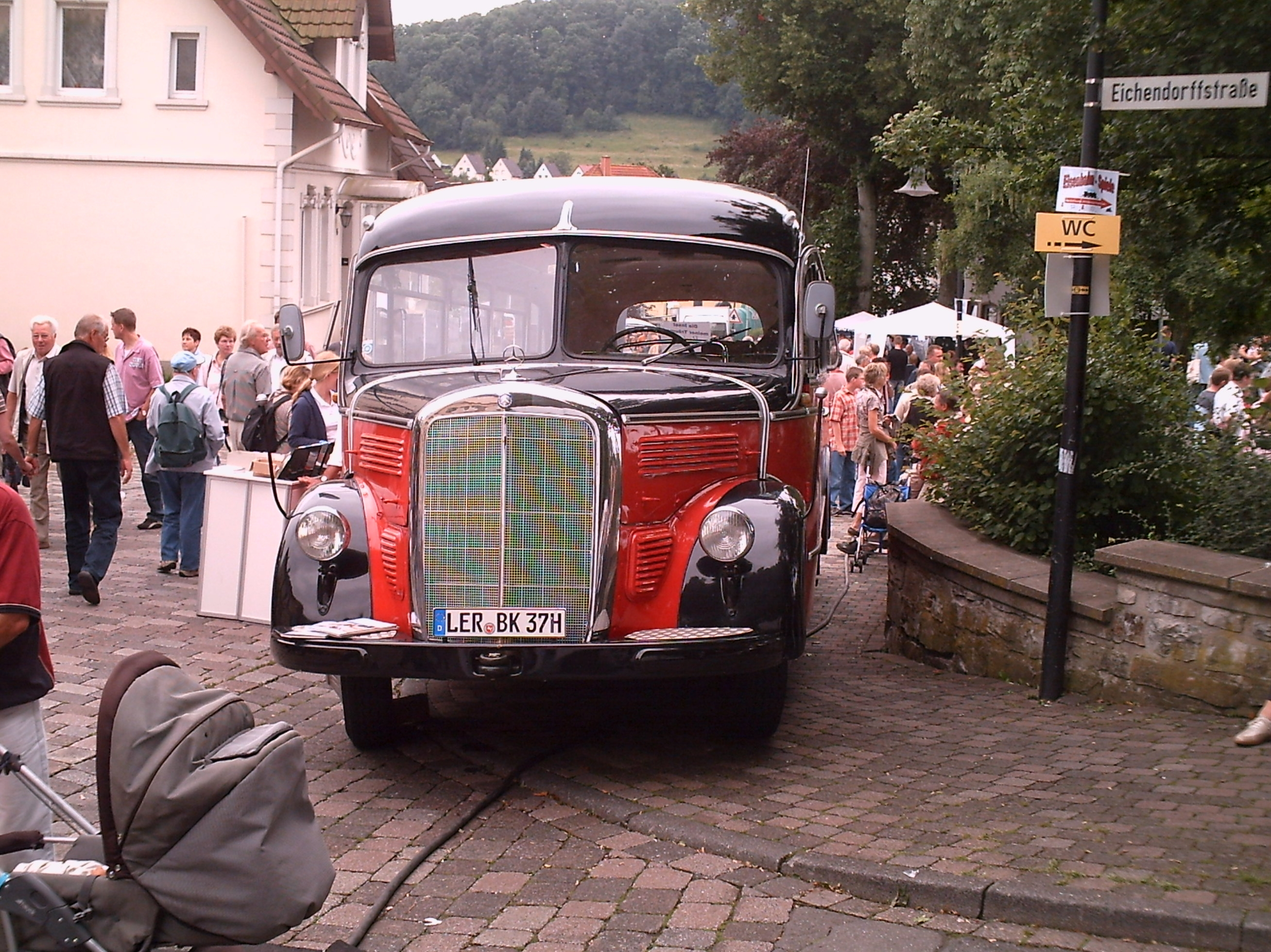 Altenbeken, Germany: Vivat Viadukt 2007: A nostalgic omnibus (MB O 3500 from Mercedes-Daimler)